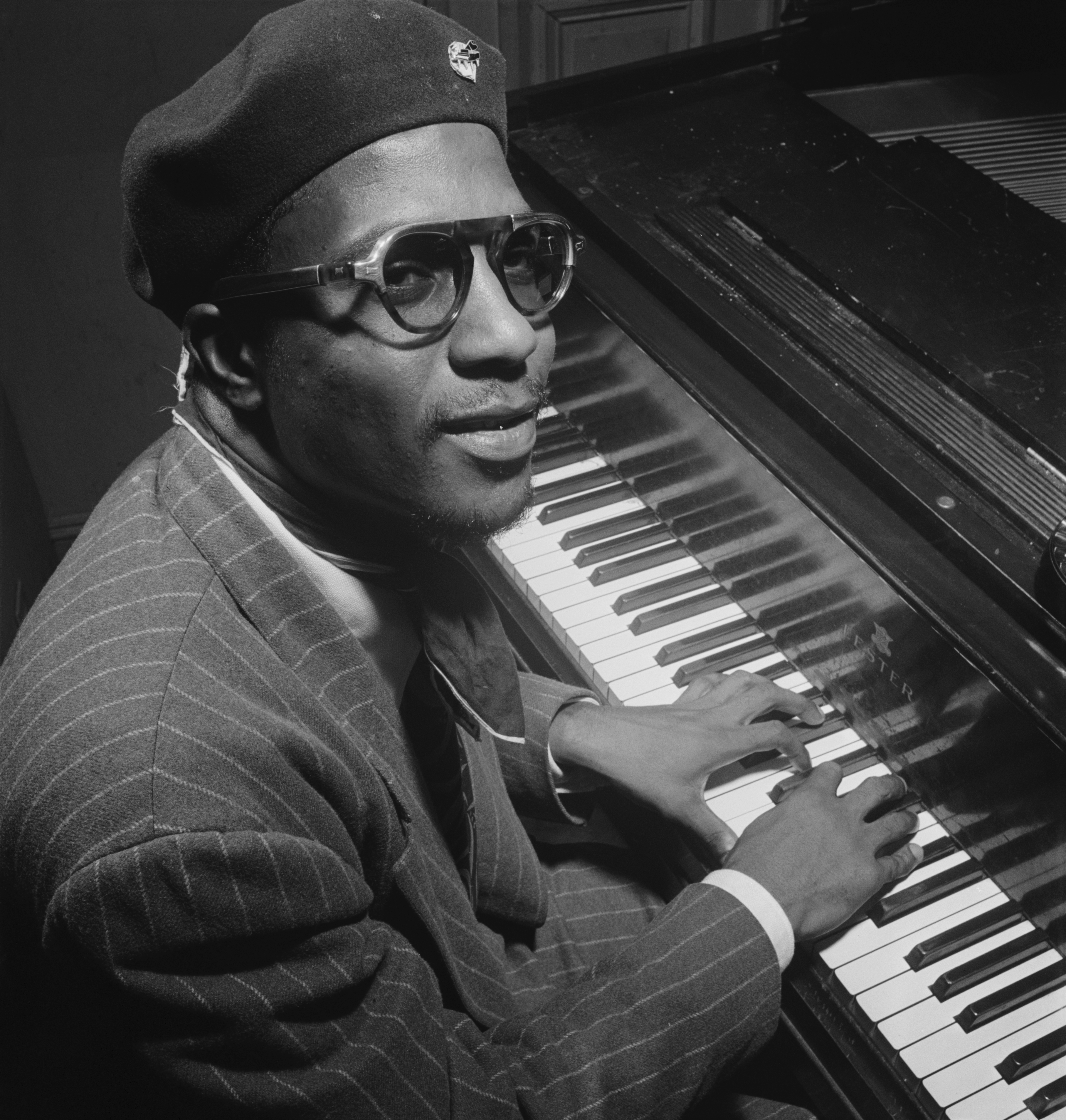 Thelonious Monk, Minton's Playhouse, New York, ca. September 1947. Photograph by William P. Gottlieb